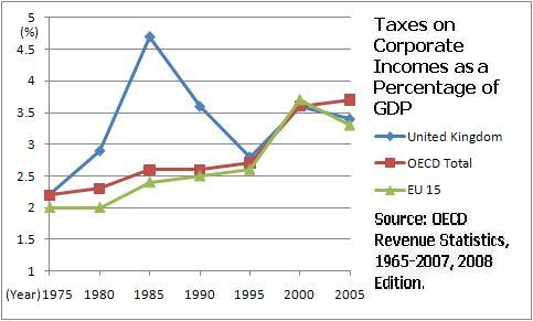 This image portrays corporate tax revenue in the U.K. as a percentage of GDP in comparison to both the unweighted average for the OECD as well as for the EU 15. Note that the EU 15 area countries are: Austria, Belgium, Denmark, Finland, France, Germany, Greece, Ireland, Italy, Luxembourg, Netherlands, Portugal, Spain, Sweden and United Kingdom. Further information is available here at